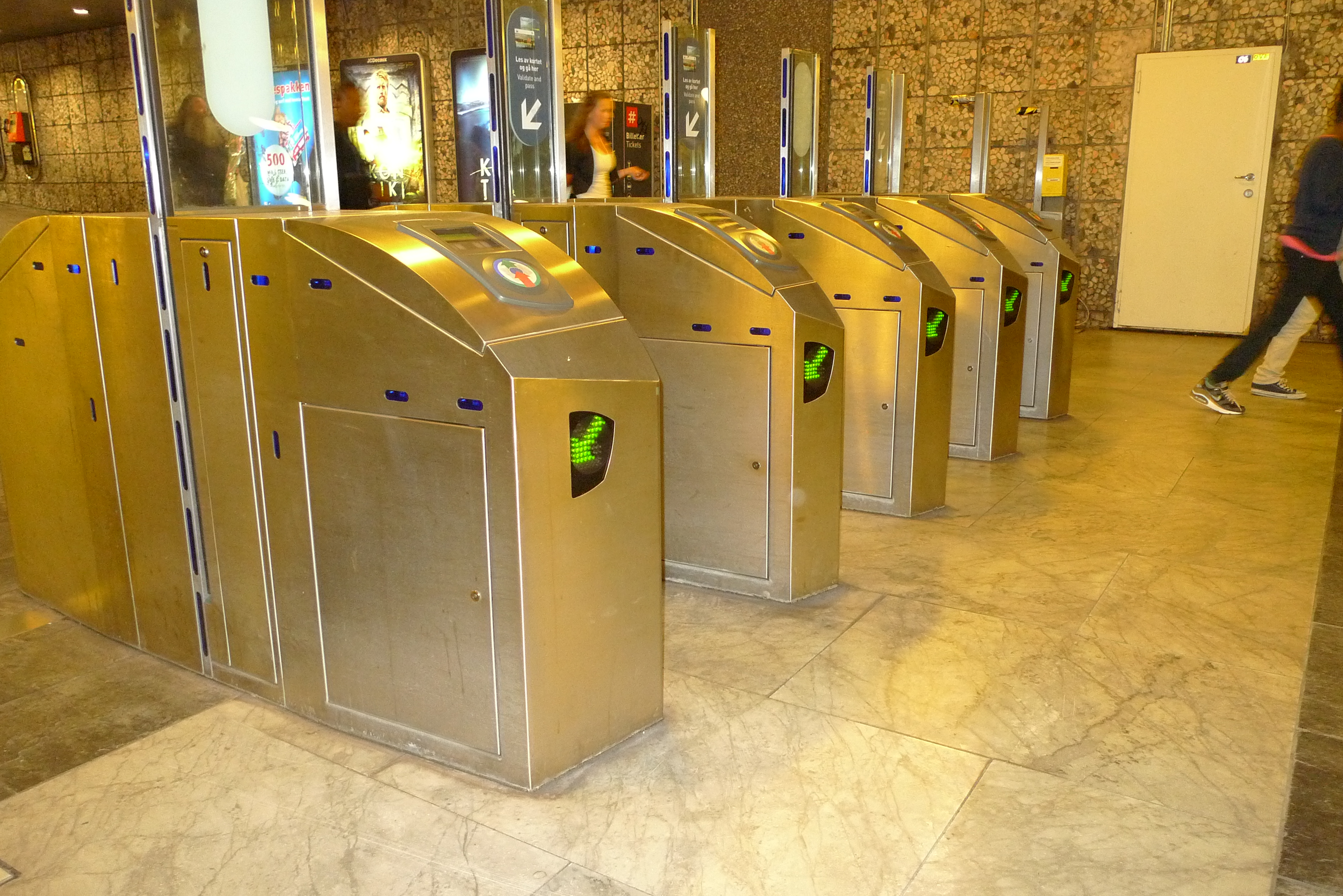 Entrance control zone Subway in Oslo